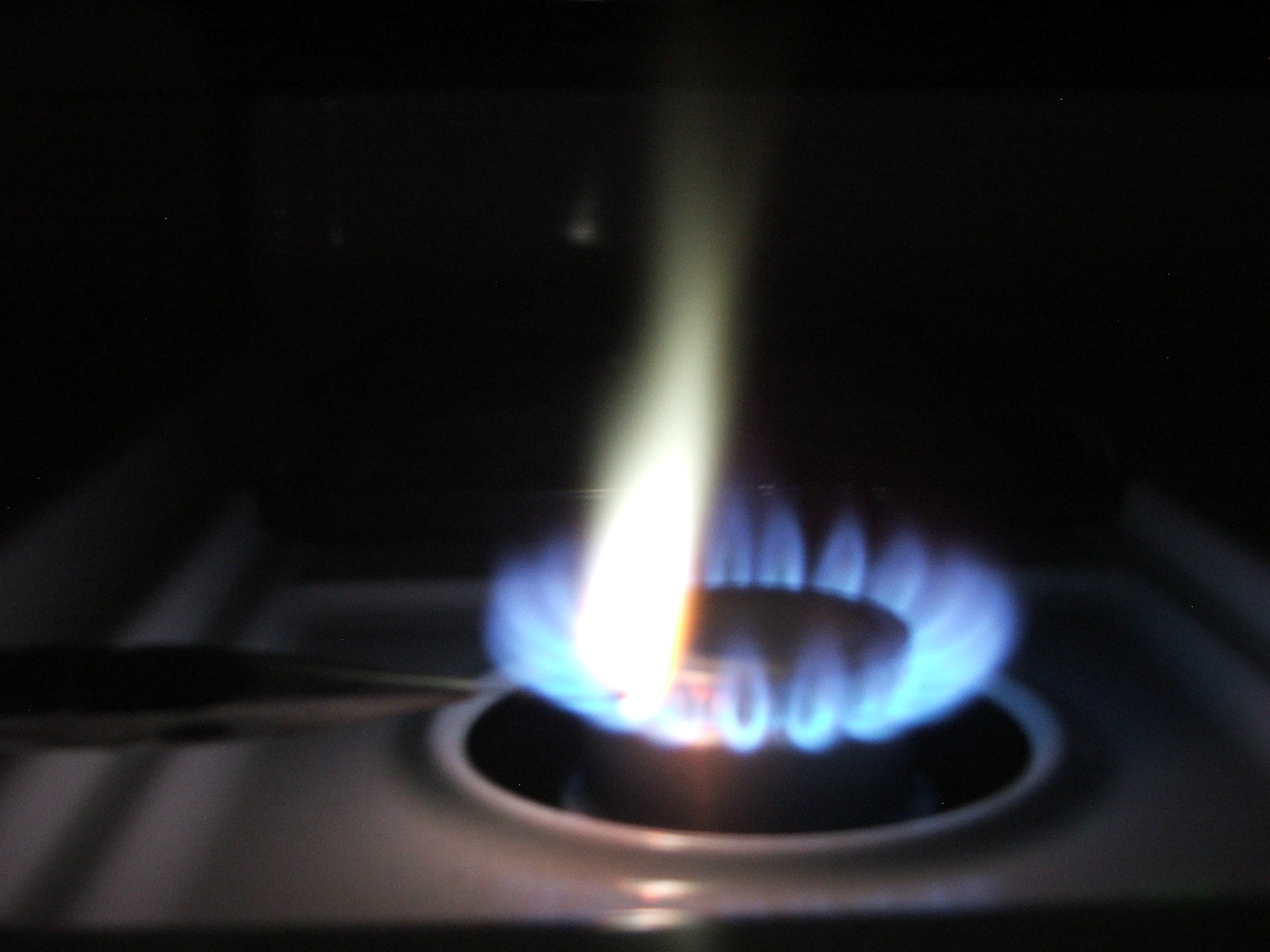 Lead powder burning. It makes a large gray-green flame, releasing toxic lead oxides.